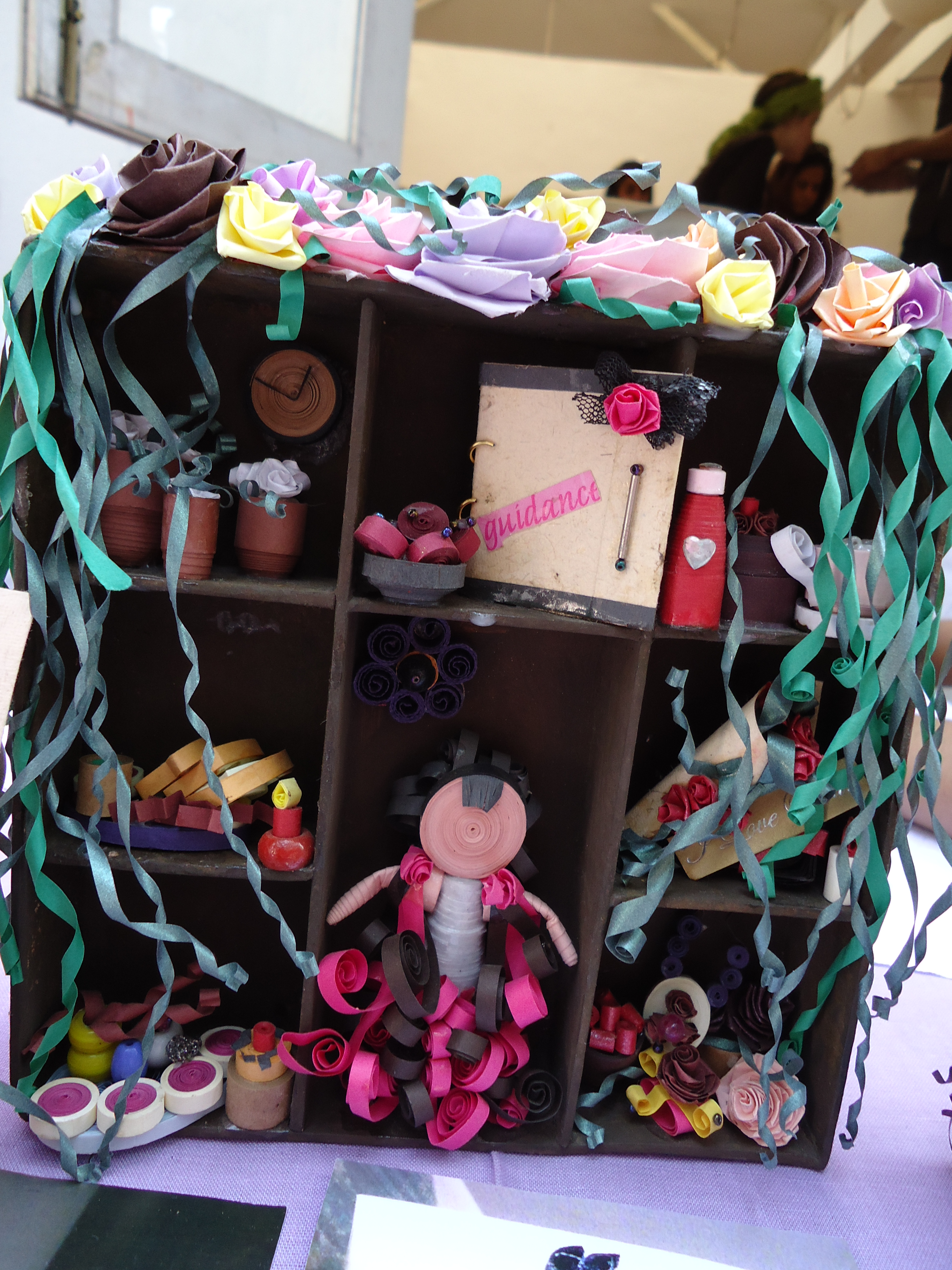 This is a work of quilling or paper filigree, a form of paper art that involves the use of strips of paper that are rolled, shaped, and glued together to create decorative designs.